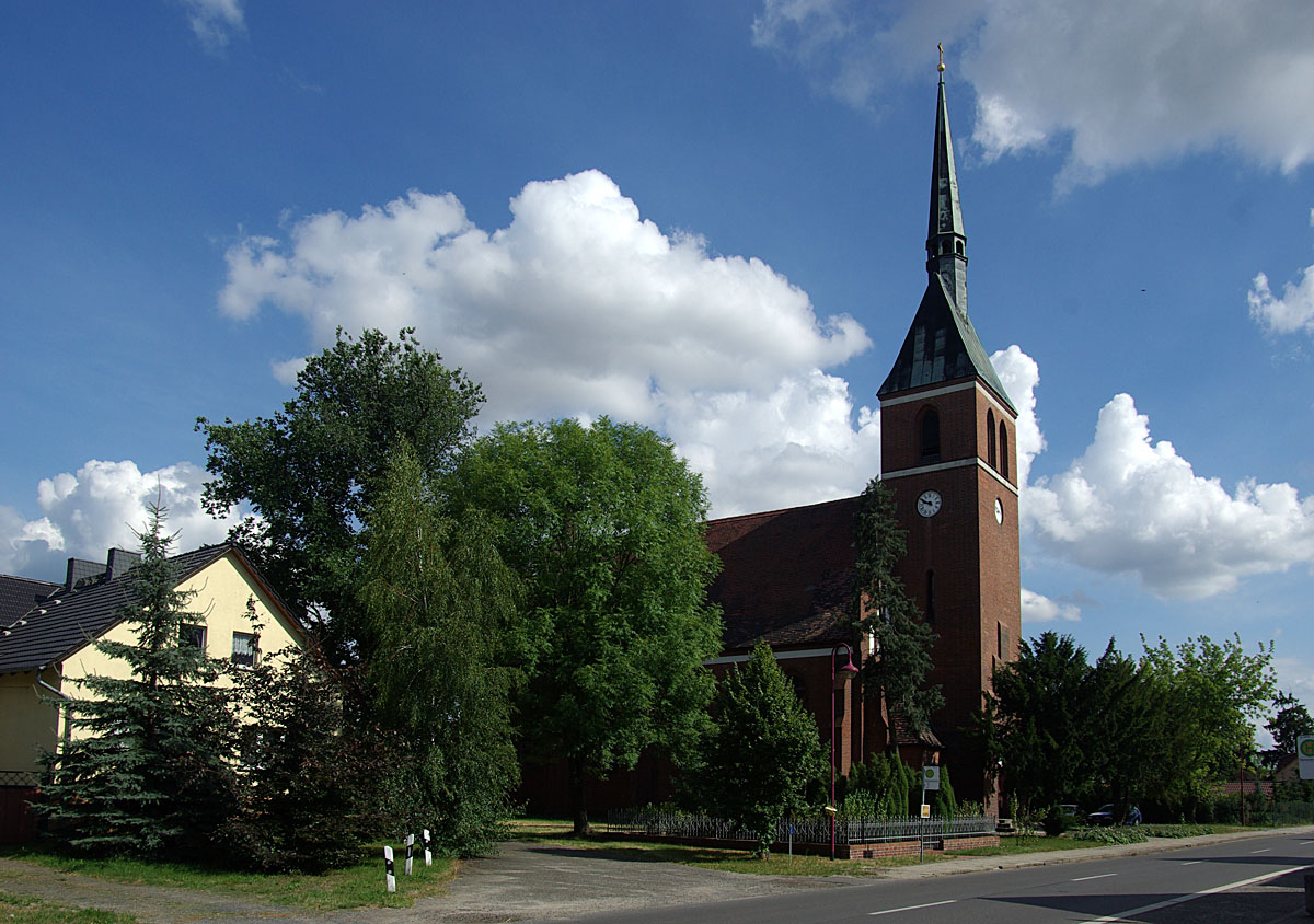 Church in Heinersbrück, Brandenburg, Germany, Baudenkmal